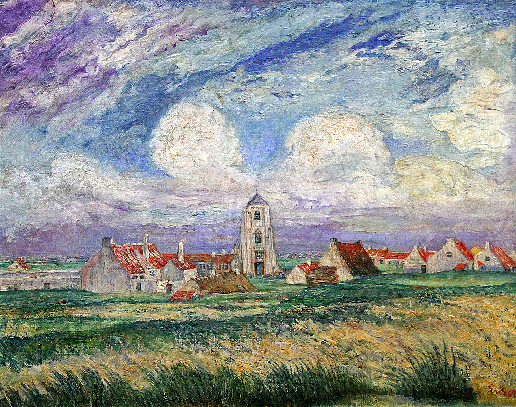 Vue de Mariakerke, l’église de Mariakerke, 1901, oil on canvas, 54 x 67 cm, Kunstmuseum aan Zee, Ostend